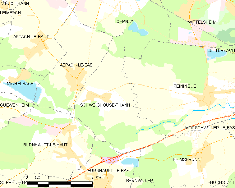 Map of French municipality